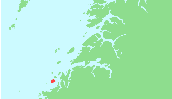 Locator map of Fugøya, Nordland, Norway